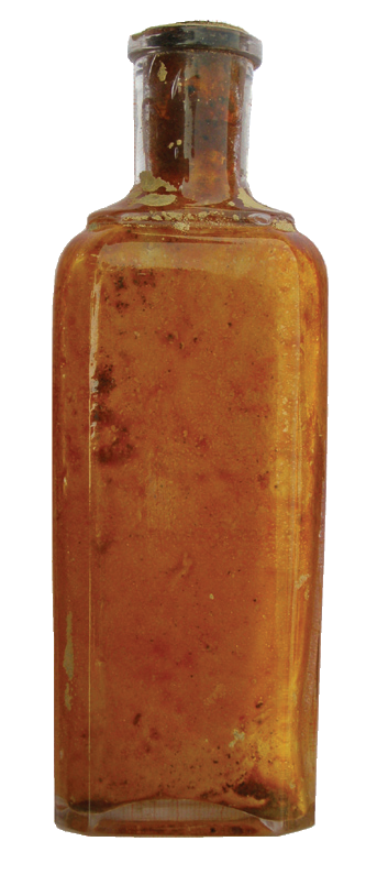 Kurmaičiai, Tinteliai cemetery, Kretinga district, Lithuania